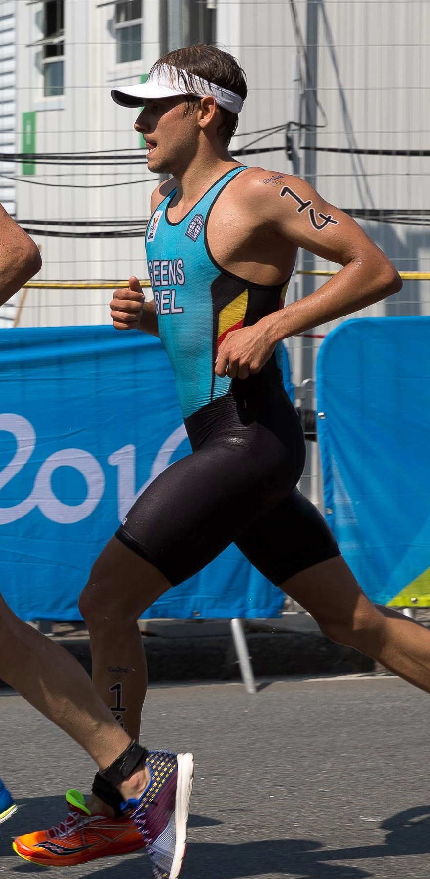 Athletes during men's triathlon competition, Copacabana ,Rio de Janeiro